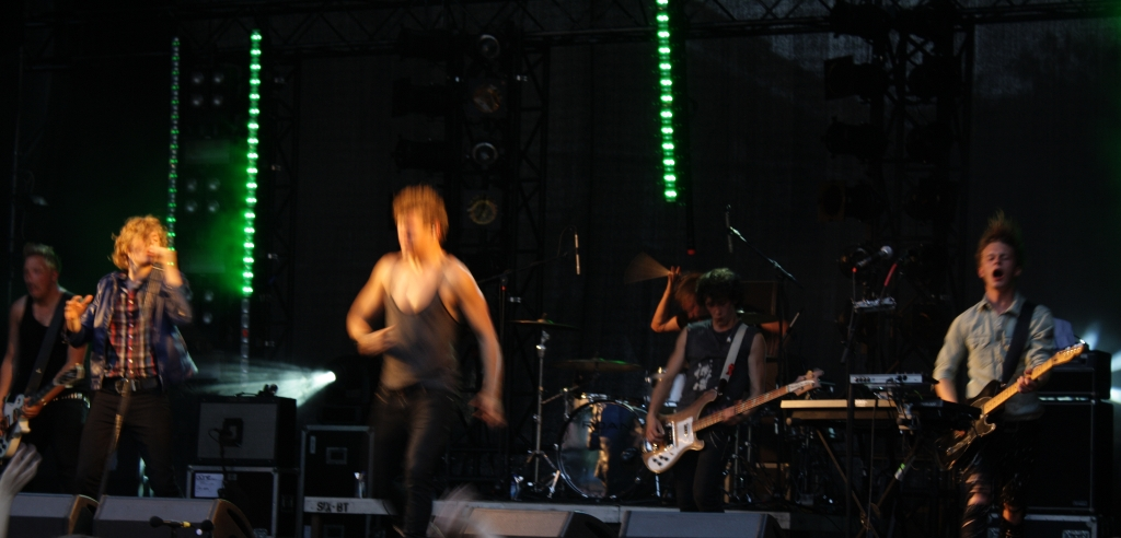 Bochum Total 2009